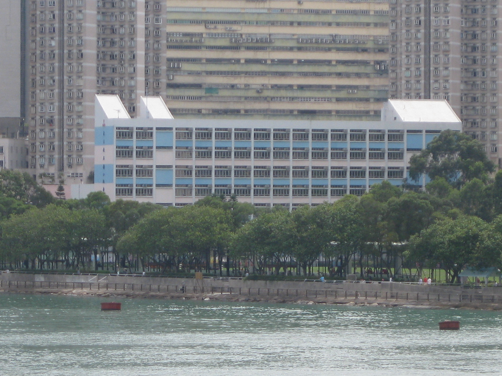 Shak Chung Shan Memorial Catholic Primary School